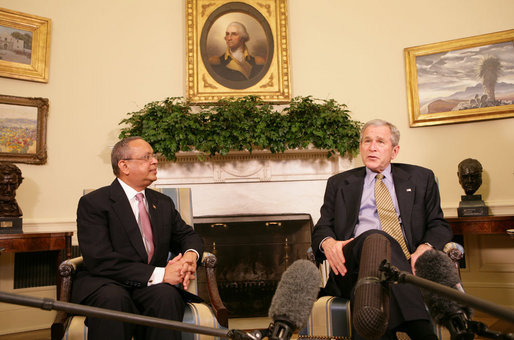 President Bush with US Special Envoy to the OIC Sada Cumber at a Press event at the White house